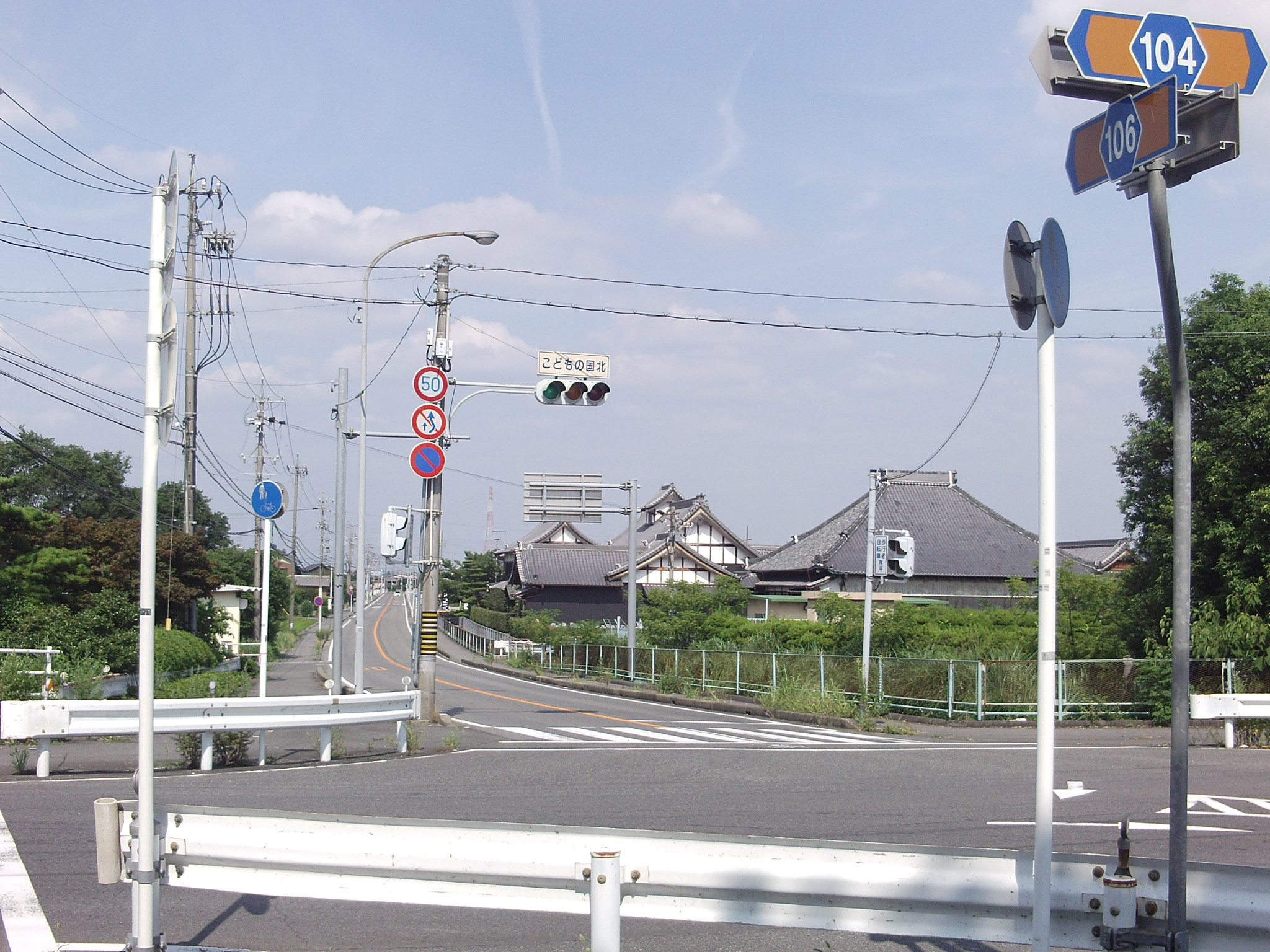 Aichi prefectural road No.106 in Toriganji, Yatomi, Aichi.